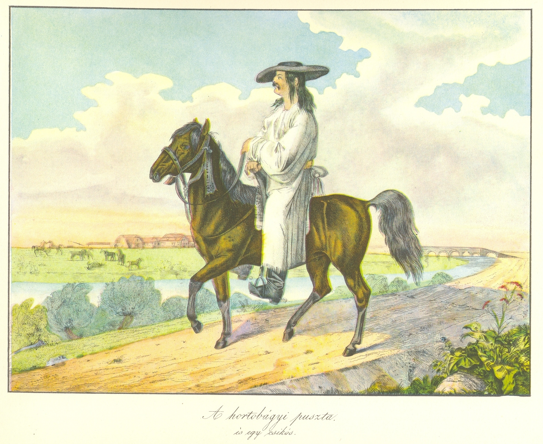 The Hortobágy and a Hungarian wrangler